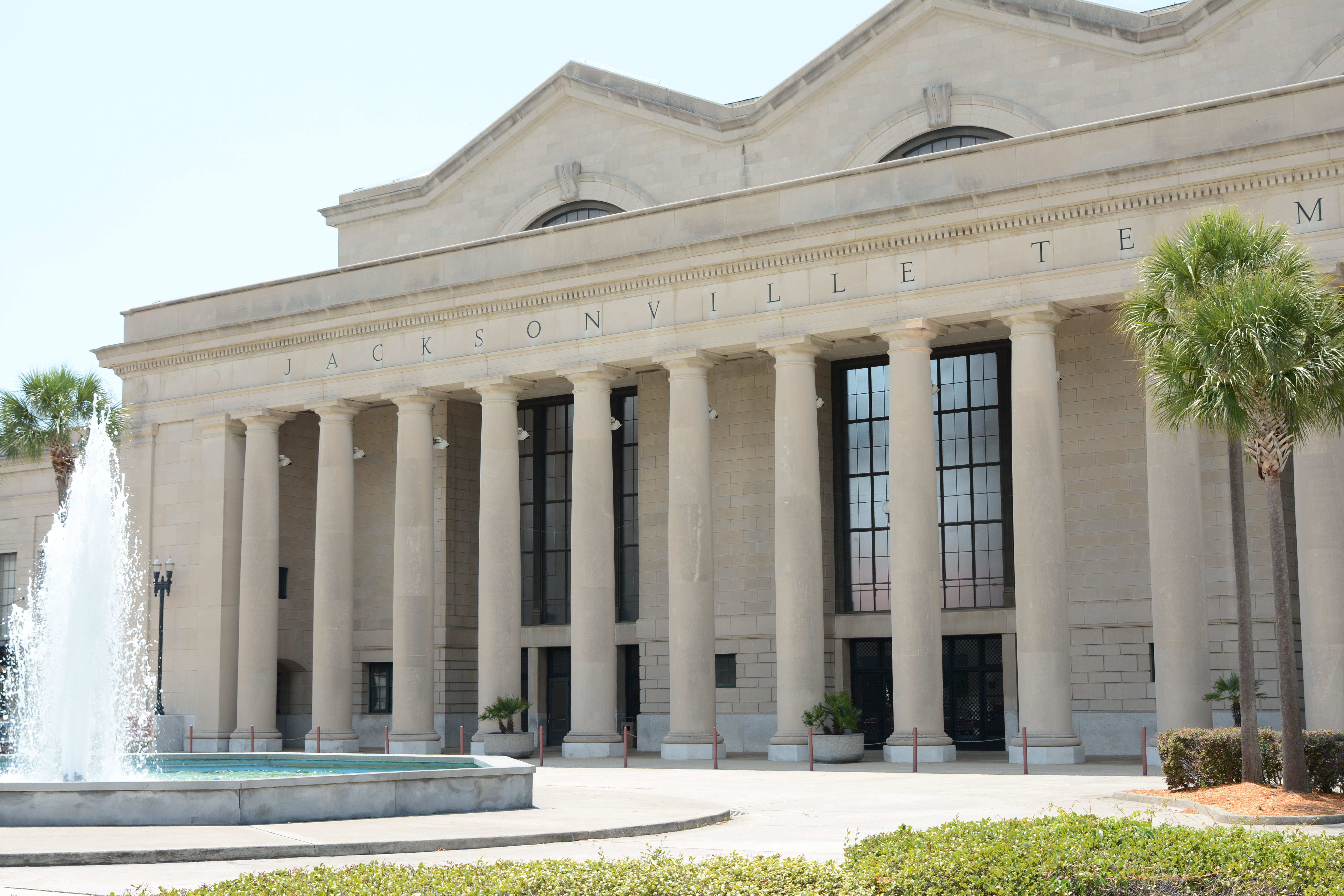 The Jacksonville Terminal Complex, in Jacksonville, Florida, U.S.